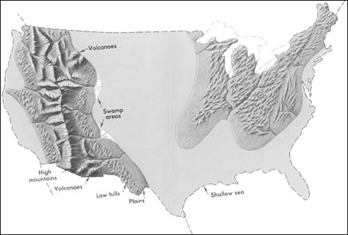 Generalized geographic map of the United States in Late Cretaceous time. Eighty million years ago, during the Age of Dinosaurs, the geography of North America was very different from that of today. Mountain ranges have changed considerably since this, the Cretaceous Period. The Appalachian Mountains were probably lower and less conspicuous as a source of sediment than they are today; apparently they supplied appreciable amounts of coarse sediment only in the Southeast (Tennessee, Alabama, Mississippi, and Georgia). The Rocky Mountains, as they are today, did not exist; instead a giant trough in which marine sediment slowly accumulated occupied this part of the West. Shallow, warm inland seas covered large portions of the Southern and Western United States, as shown on the map. Large portions of California were under water, and in eastern California, Nevada, Arizona, Idaho, eastern Oregon, Washington, and Alberta, a belt of the Earth's crust slowly rose to form a new mountain range. Details from this vast highland extended eastward into Utah, Wyoming, Colorado, and New Mexico. Still farther east, Kansas, Nebraska, and adjacent States to the north and south were covered by warm, extensive, but shallow seas in which beds of limestone slowly formed. The Cretaceous Period marked the last extensive covering of the North American continent by the sea. Since then, sea level has dropped and the continent has gradually emerged to its present size and shape.